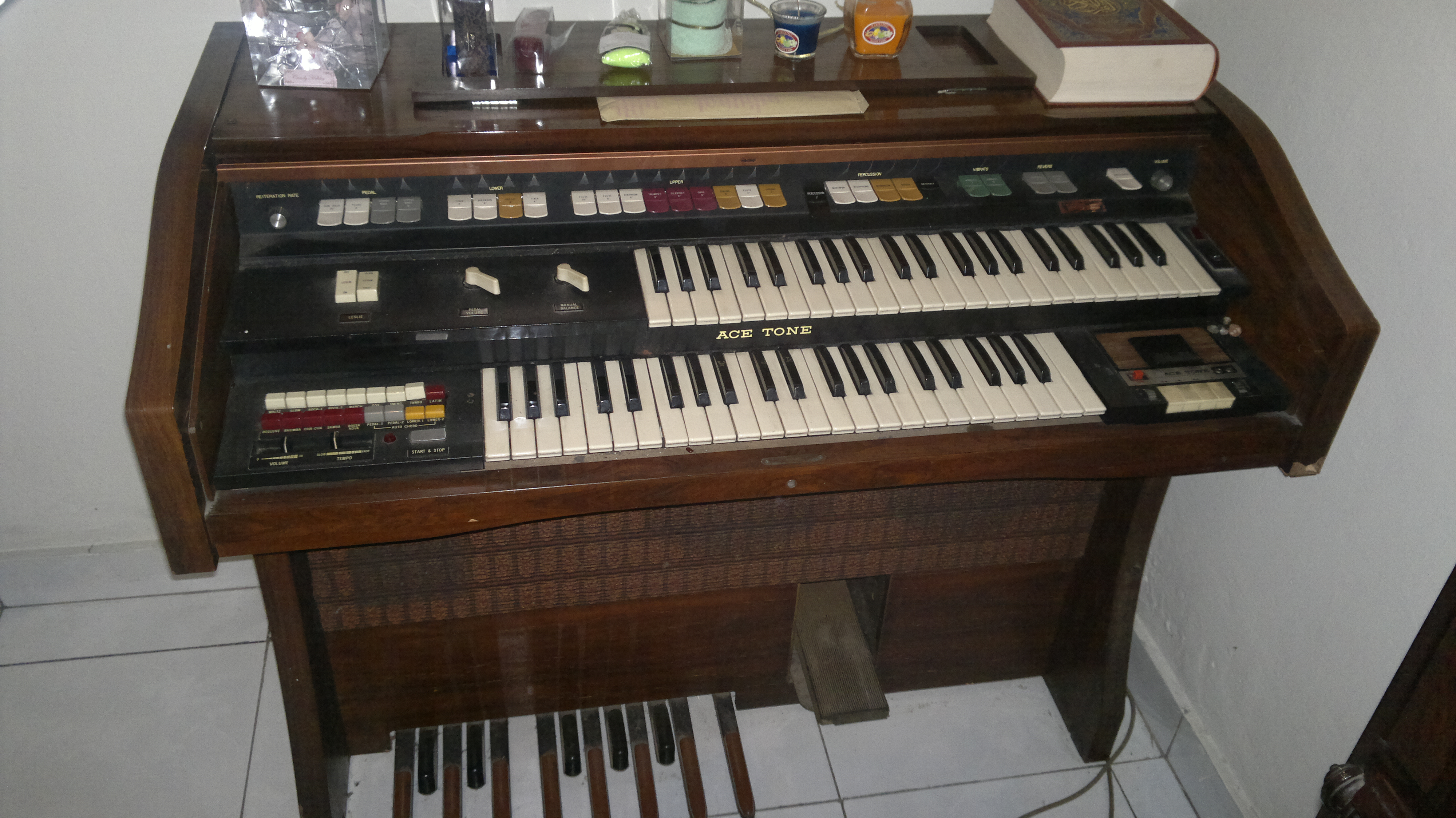 Ace Tone unknown electronic home organ Similar models Ace Tone Ace 1000 / 2000 / 3000 were designed and built in Japan based on Hammond Cadette series, and these were also built in England in 1970s as Hammond F1000 / F2000 / F3000.[1] Similar to Ace Tone unknown 1 on Orgel Wiki (less levers & buttons, with built-in cassette deck) and Ace Tone B-422 (less buttons, without built-in cassette deck).